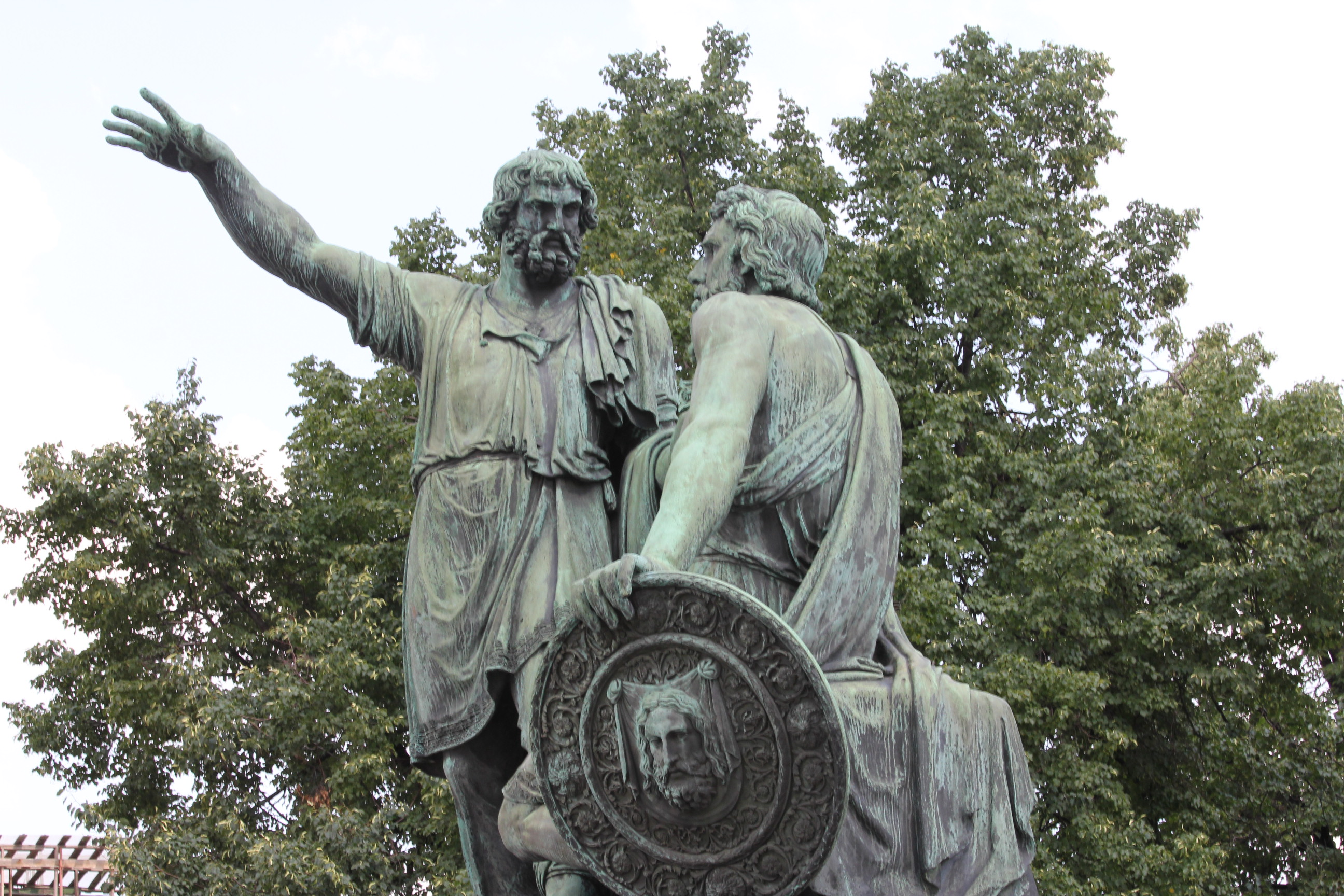 Monument to Minin and Pozharsky